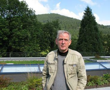 Mathematician Ib Madsen at the workshop “Topology” in Oberwolfach, 2008.